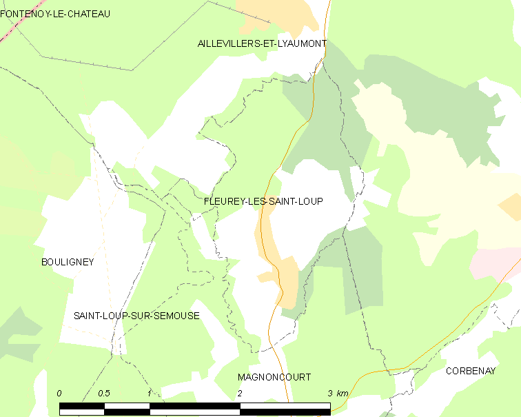 Map of French municipality